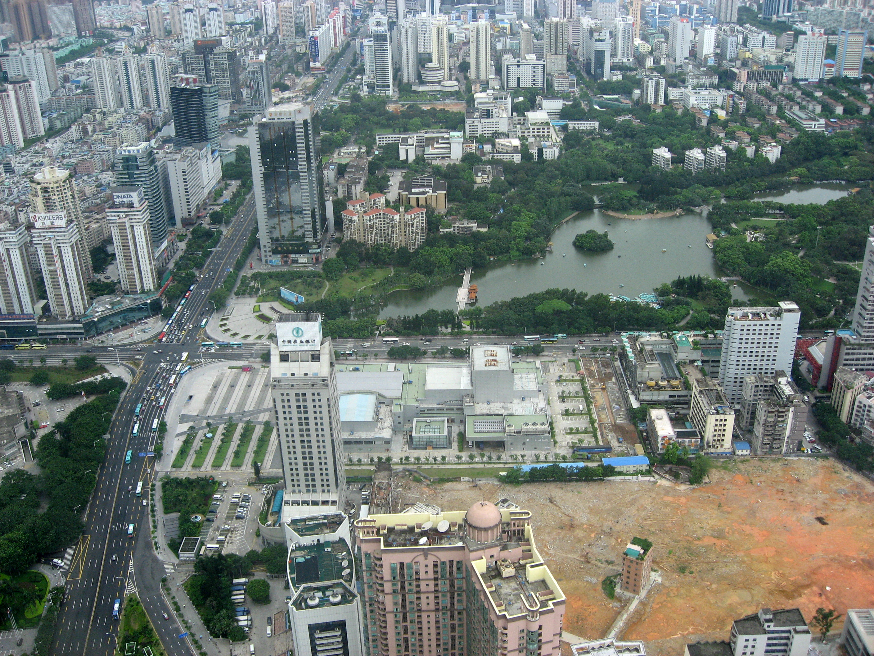 The Lychee Park in the centre of Shenzhen with a roadside billboard of Deng Xiaoping